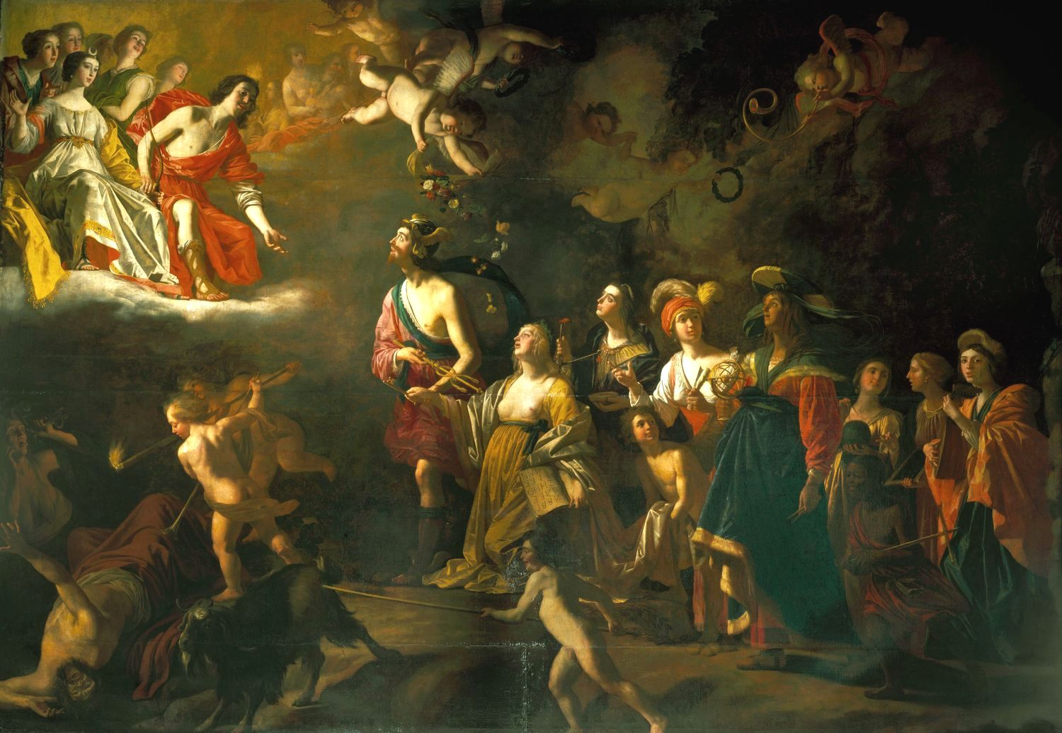 An allegorical painting. At the centre is George Villiers, first Duke of Buckingham, in the guise of Mercury, patron of the arts. The arts appear to the right while in the heavens above appear Kinf Charles I and his queen Henrietta Maria dressed as the gods Apollo and Diana.